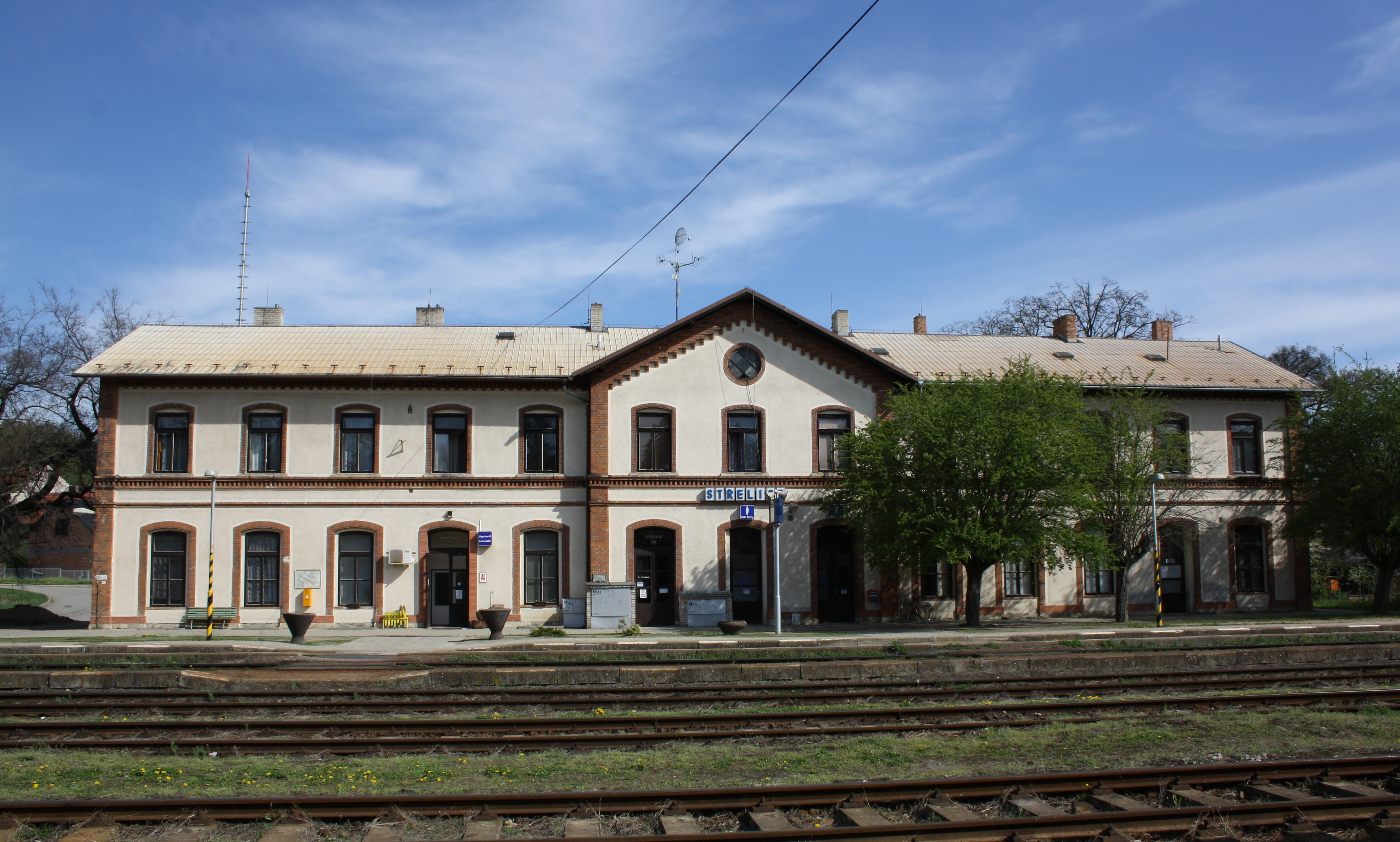 Střelice. Brno-Country District, Sout Moravian Region, Czech Republic Project: Chráněná území This photograph was taken with a DSLR from WMCZ's Camera grant.